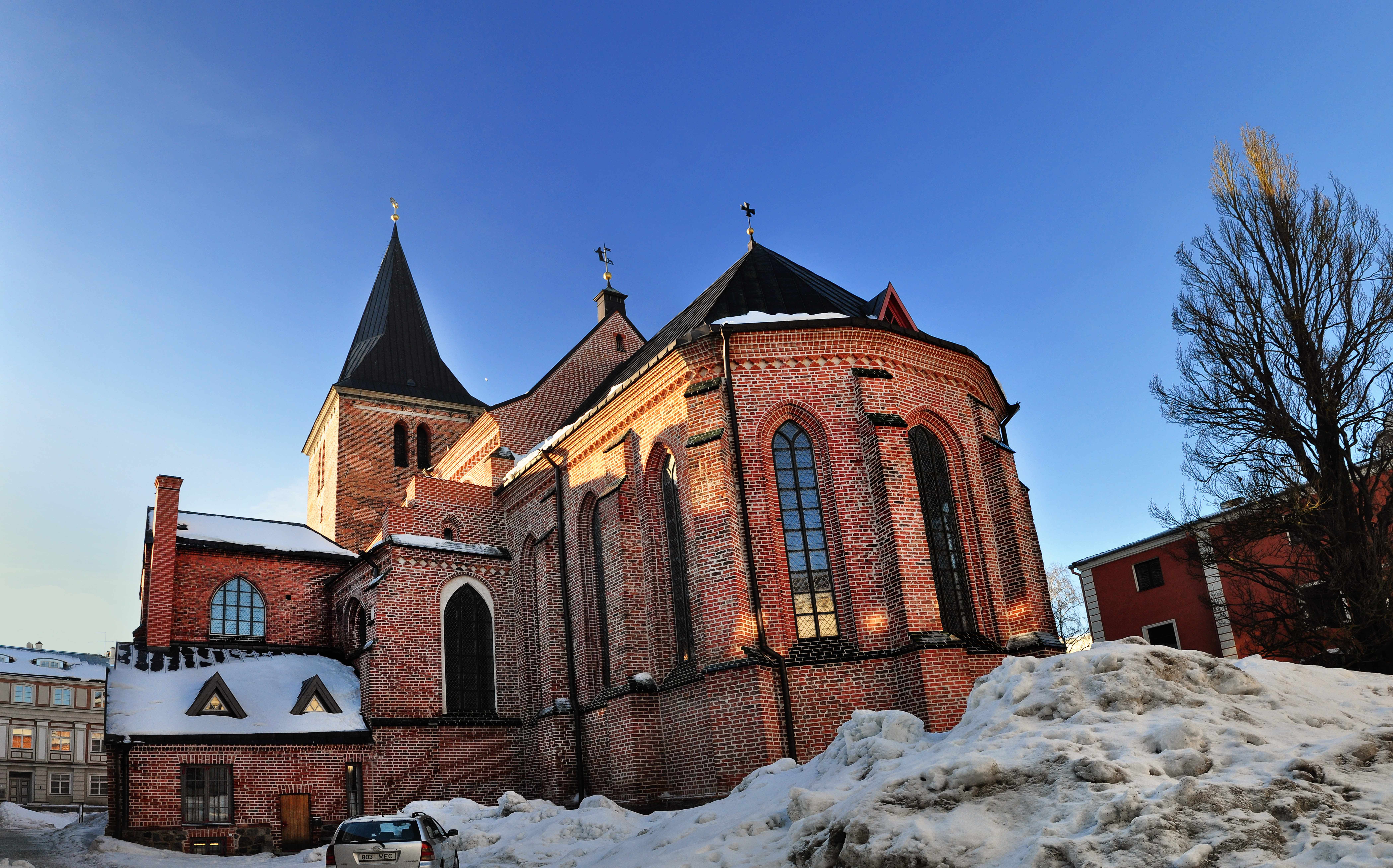 St. John's Church (Jaani Kirik) in Tartu, Estonia